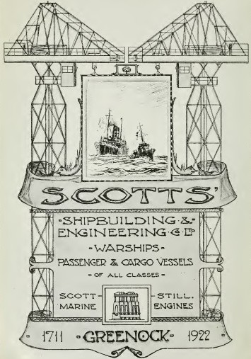 Advertisement for Scotts Shipbuilding and Engineering Company in Brassey's Naval Annual 1923.